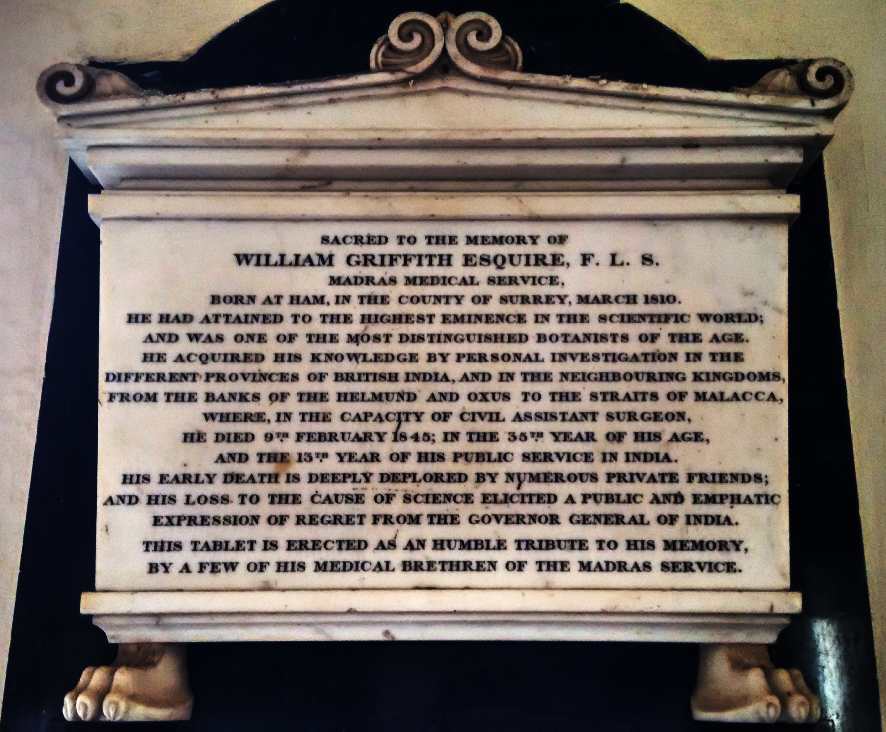 Memorial tablet to William Griffith at St. George Cathedral, Madras/Chennai